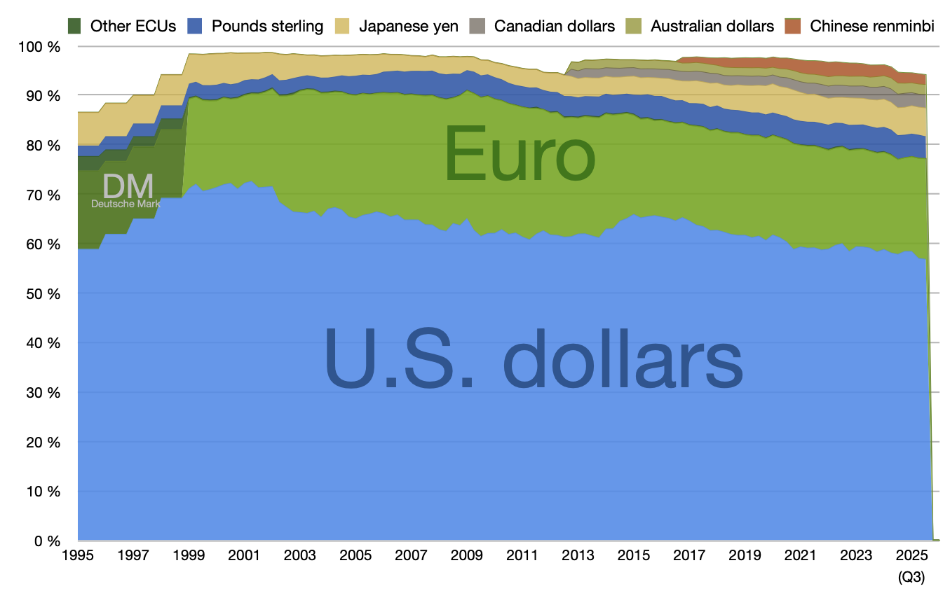 Global currency reserves Data